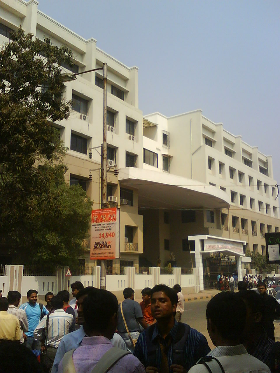 College